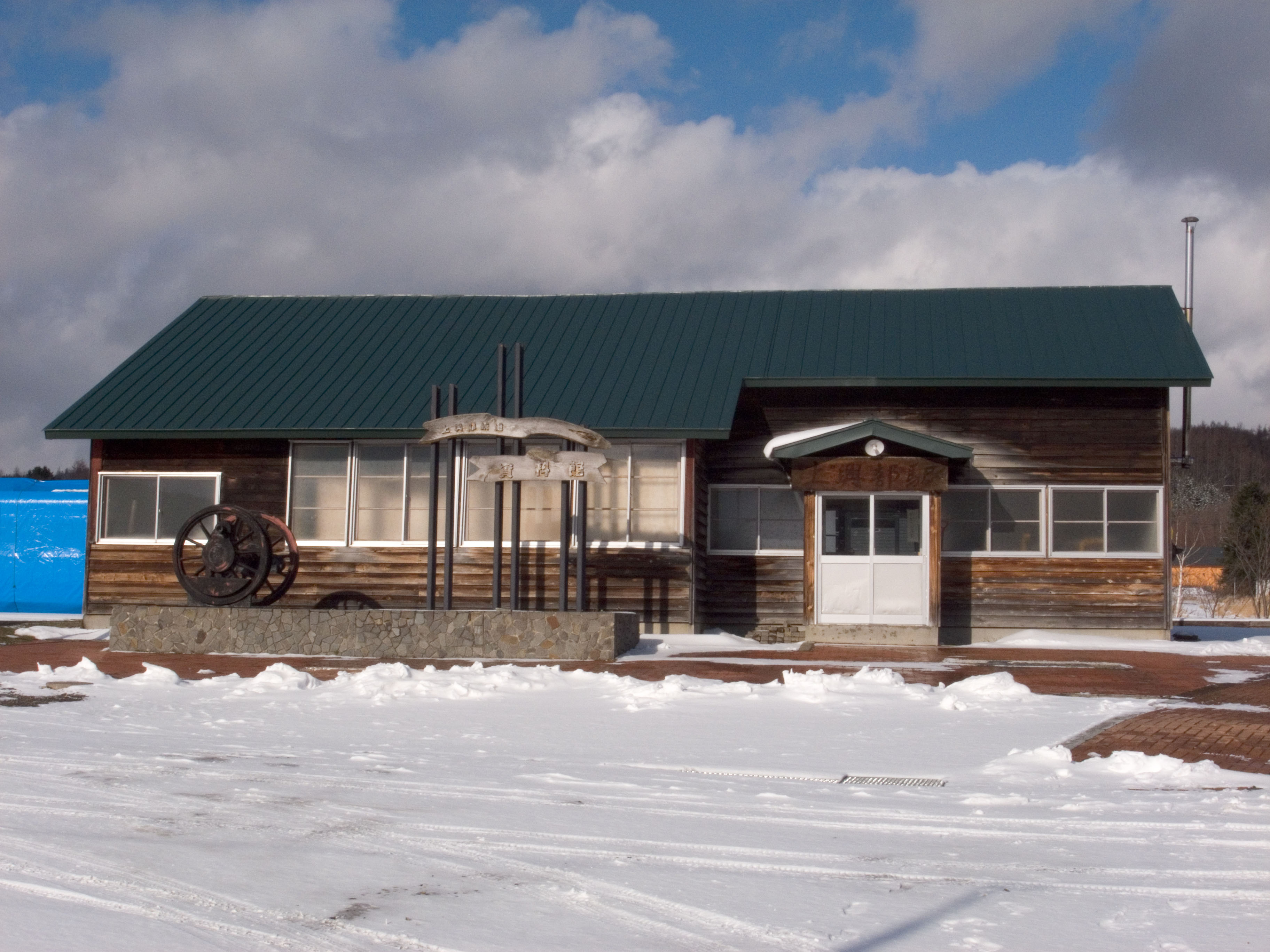 Former Kami-Okoppe Station, Nishi-Okoppe, Hokkaido, Japan